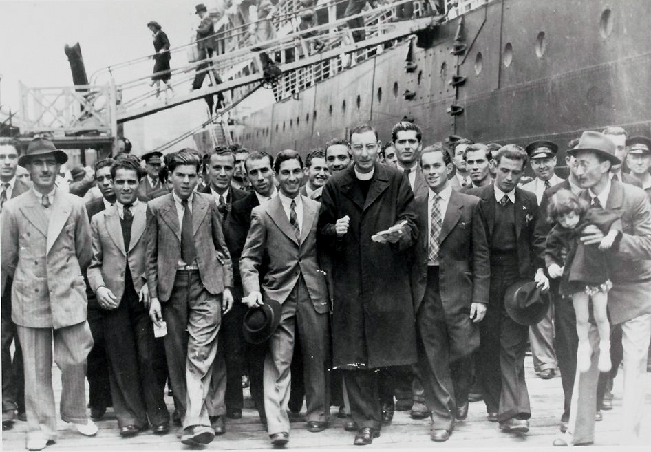 149 Maltese immigrants land in Sydney from the SS Partizanka on 13 December 1948. From the Sydney Morning Herald, 16 January 1948, p.3: "With evident joy and eagerness to make new homes in Australia, these youthful Maltese arrived in Sydney yesterday by the Yugoslav Government ship Partizanka. There to welcome them at the wharf was the Rev. Father Cassar, second from right in front. The Maltese were among 700 Southern European migrants on board" [1] the priest: Rev. Father Robert Cassar, Sydney's Maltese chaplain, from the Carmelite Novitiate, Illoura Av., Wahroonga [2] the tall man behind the priest: Joe Gatt from Mgarr 3rd man from the left with the ticket in hand: Philip Azzopardi from Zebbug - "The boy in the pinstripe suit" 2nd man on left side, front row : George Anthony Mangion from Qormi